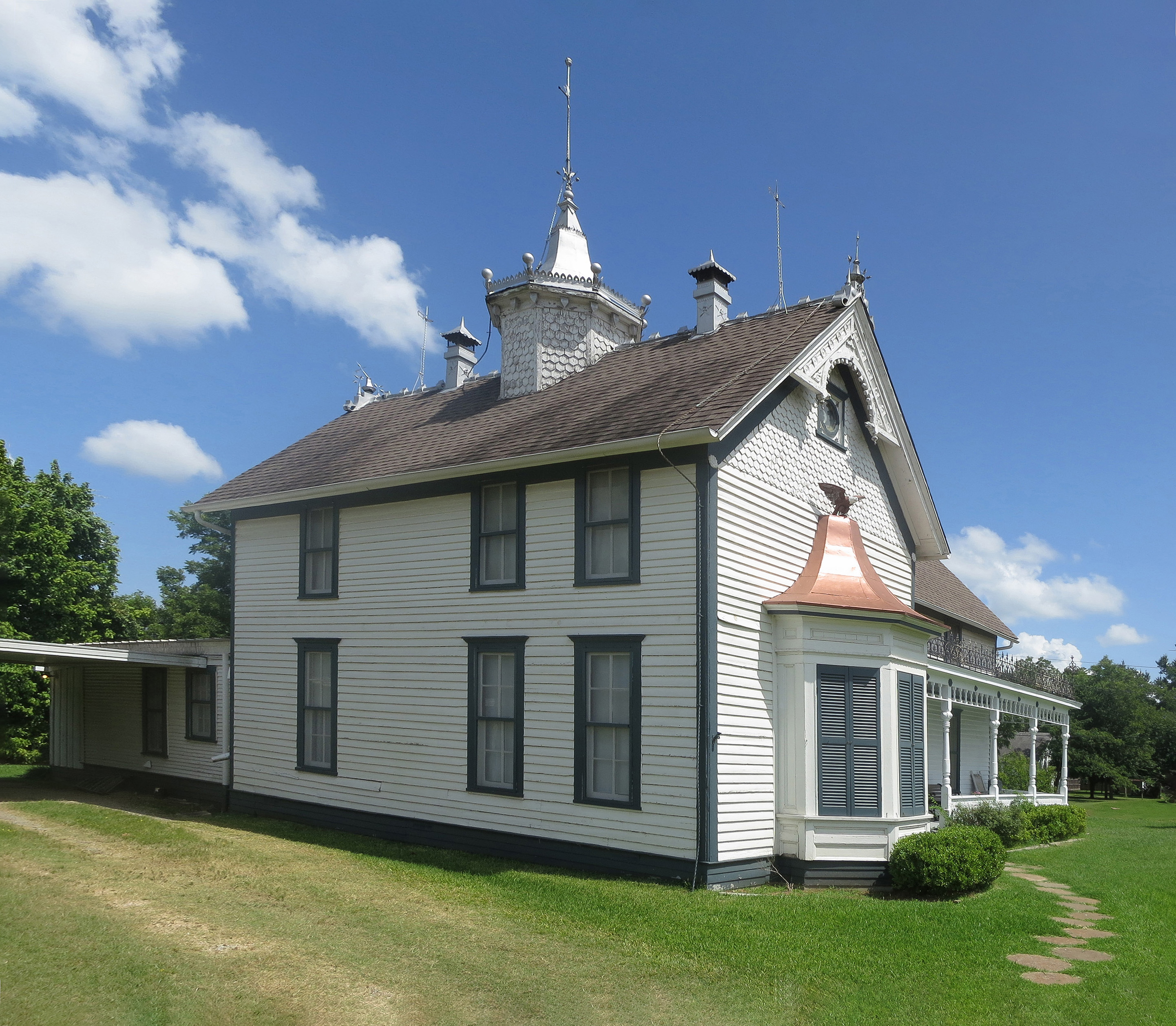 German native Fridolin (Fred) Fischer (1850-1921) came to Freestone County from Indiana in 1876. In 1893, the same year he opened a local hardware store, he had this home constructed by David P. Winfrey. Built in the Eastlake style, the residence features elaborate metal ornamentations, including some designed by Fischer who had been trained as a tinsmith in Germany. After Fischer's death, the home remained in the ownership of his descendants.